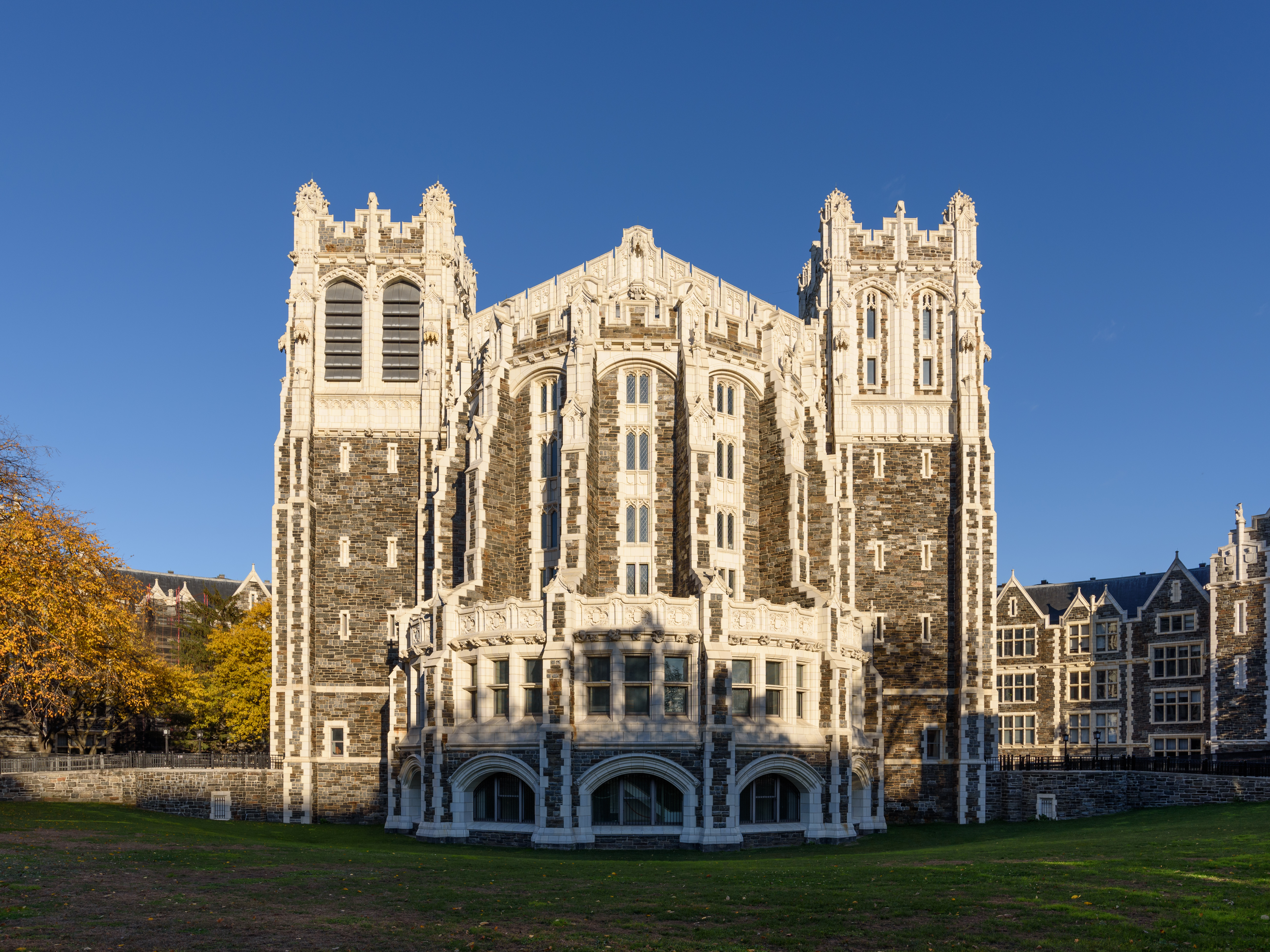 Shepard Hall, City College of New York, Manhattan, New York City.